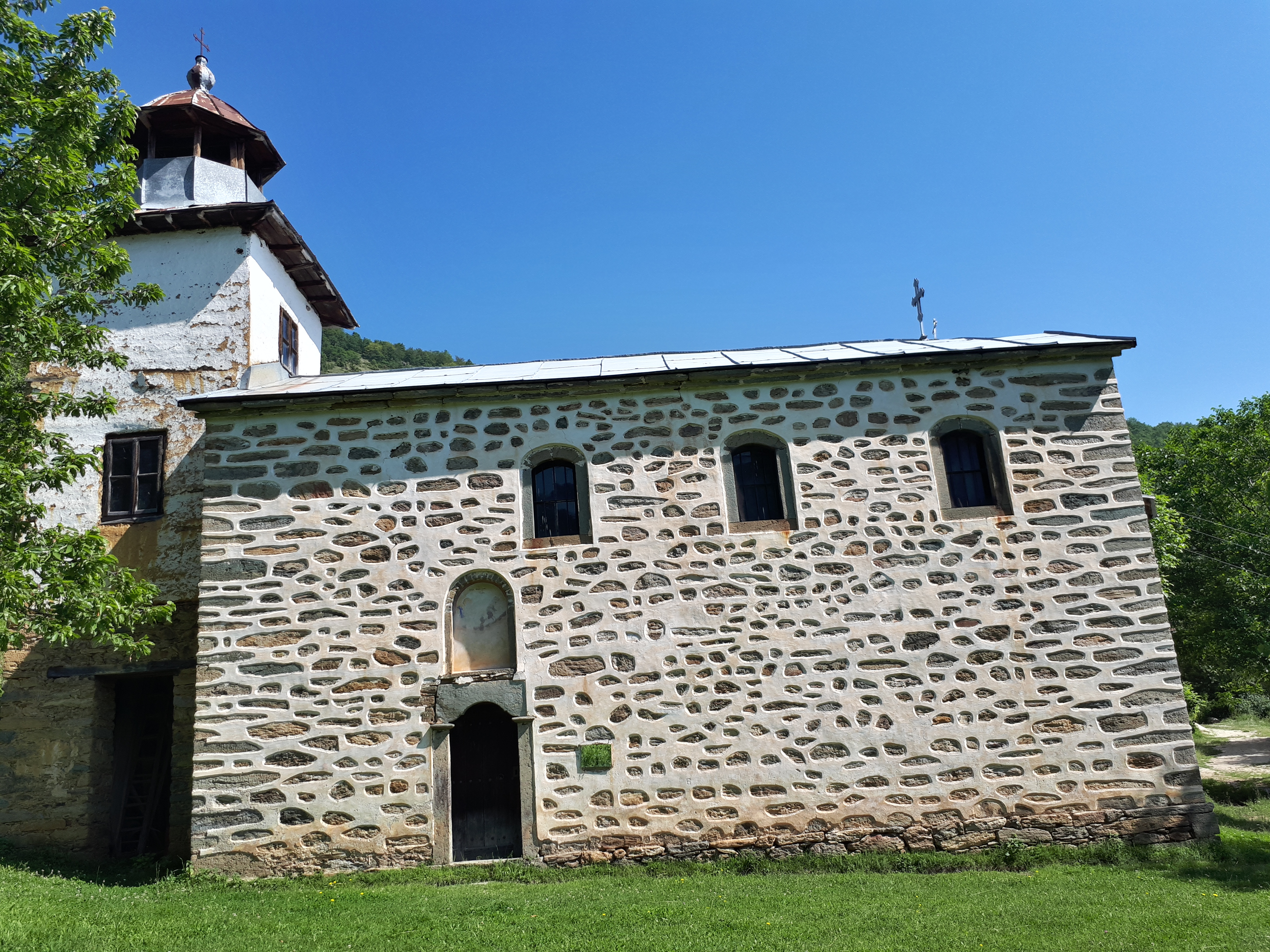 Church in the village Gorno Krušje, Makedonski Brod